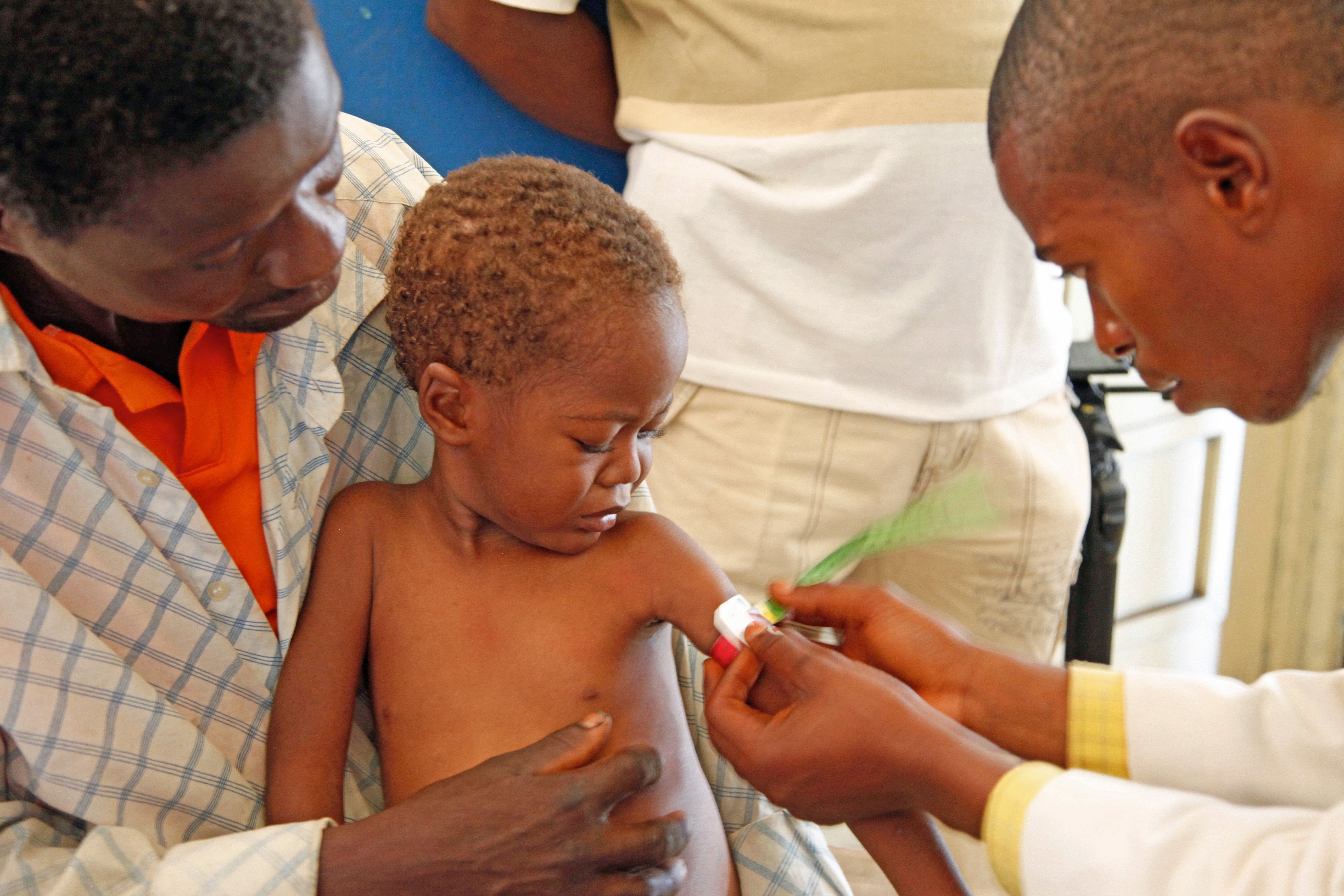 Medical staff measure the upper arm circumference of a child who may be malnourished, at the local hospital in Masi Manimba, DRC. The measurement is an indicator of the severity of the child's condition. Thanks to UK aid and the NGO Action Against Hunger, levels of acute and severe malnutrition have been reduced in this part of DRC, although there are still cases, and many families do remain at risk. Background Acute malnutrition is a major public health problem across the Democratic Republic of Congo. UK aid has supported the government of DRC and aid agencies including Action Against Hunger to provide emergency nutrition response programmes across DRC in 2010 and 2011. In some areas, the communities have taken the ideas that Action Against Hunger brought to them, and organised themselves to tackle malnutrition from the ground up - by forming their own co-operative farms and self-support groups. Read the full story at Picture: Russell Watkins/Department for International Development Terms of use This image is posted under a Creative Commons - Attribution Licence, in accordance with the Open Government Licence. You are free to embed, download or otherwise re-use it, as long as you credit the source as Russell Watkins/Department for International Development'.